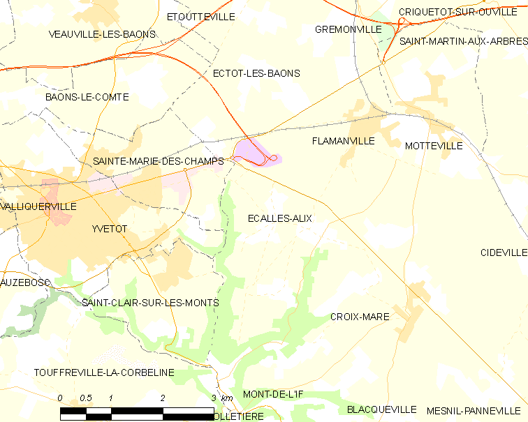 Map of French municipality Écalles-Alix